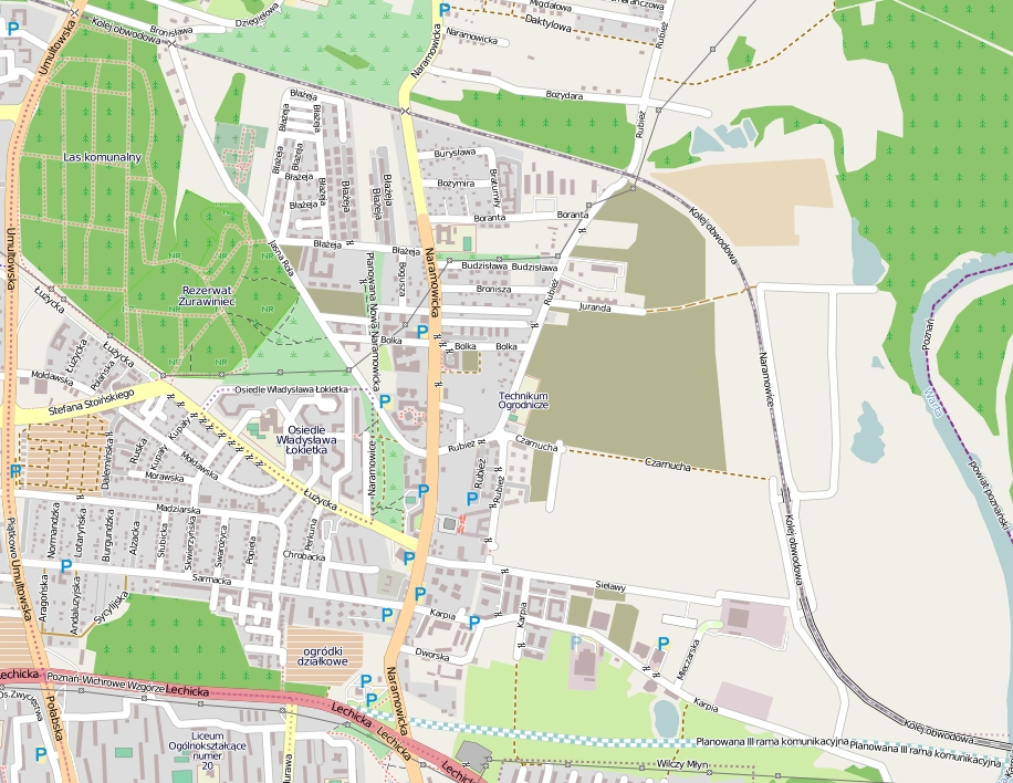 This map of Naramowice, Poznań, Polska was created from OpenStreetMap project data, collected by the community. This map may be incomplete, and may contain errors. Don't rely solely on it for navigation.